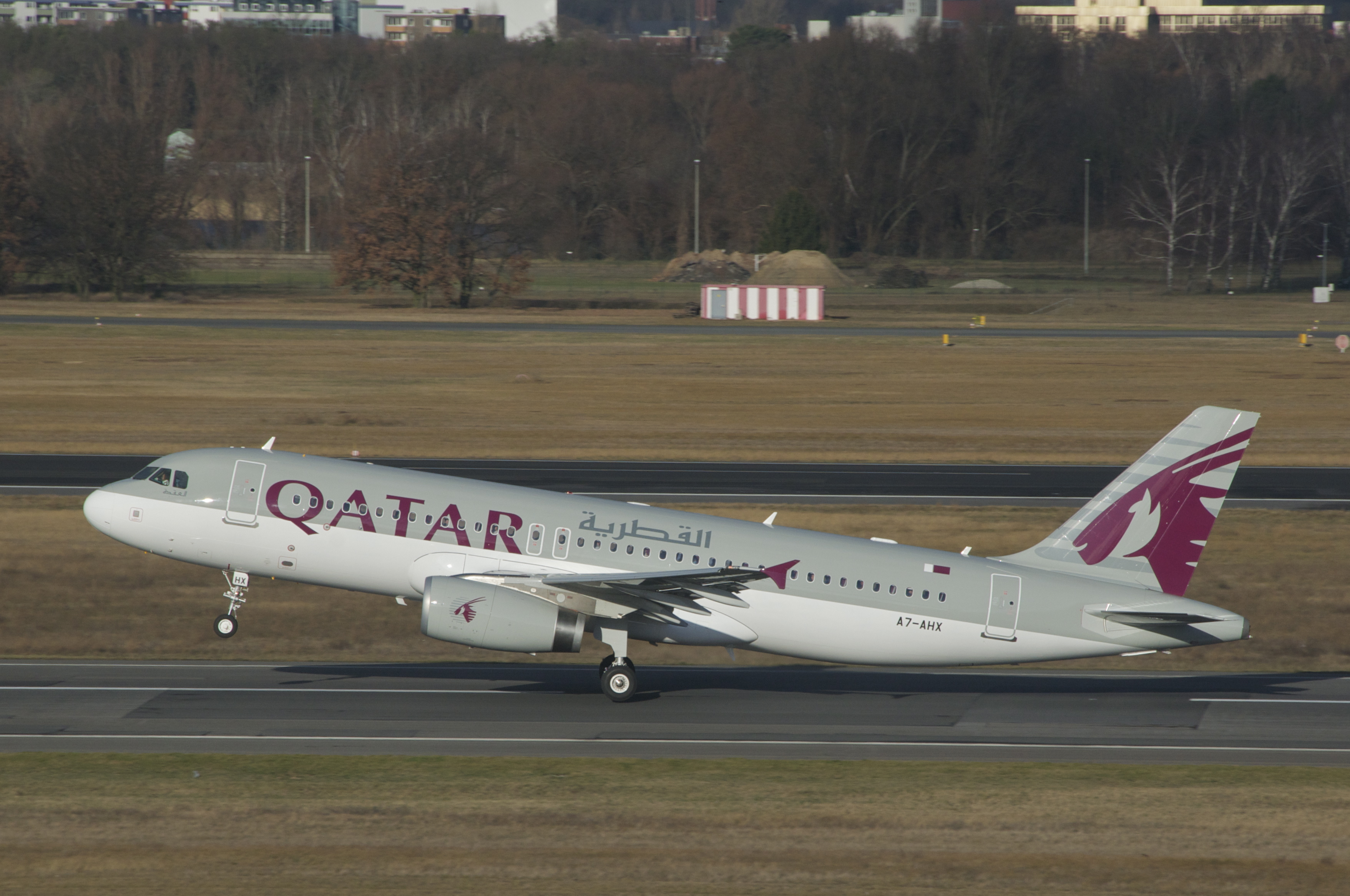 First flight: October 26, delivered to QR on November 23, 2012...(c/n 5361)